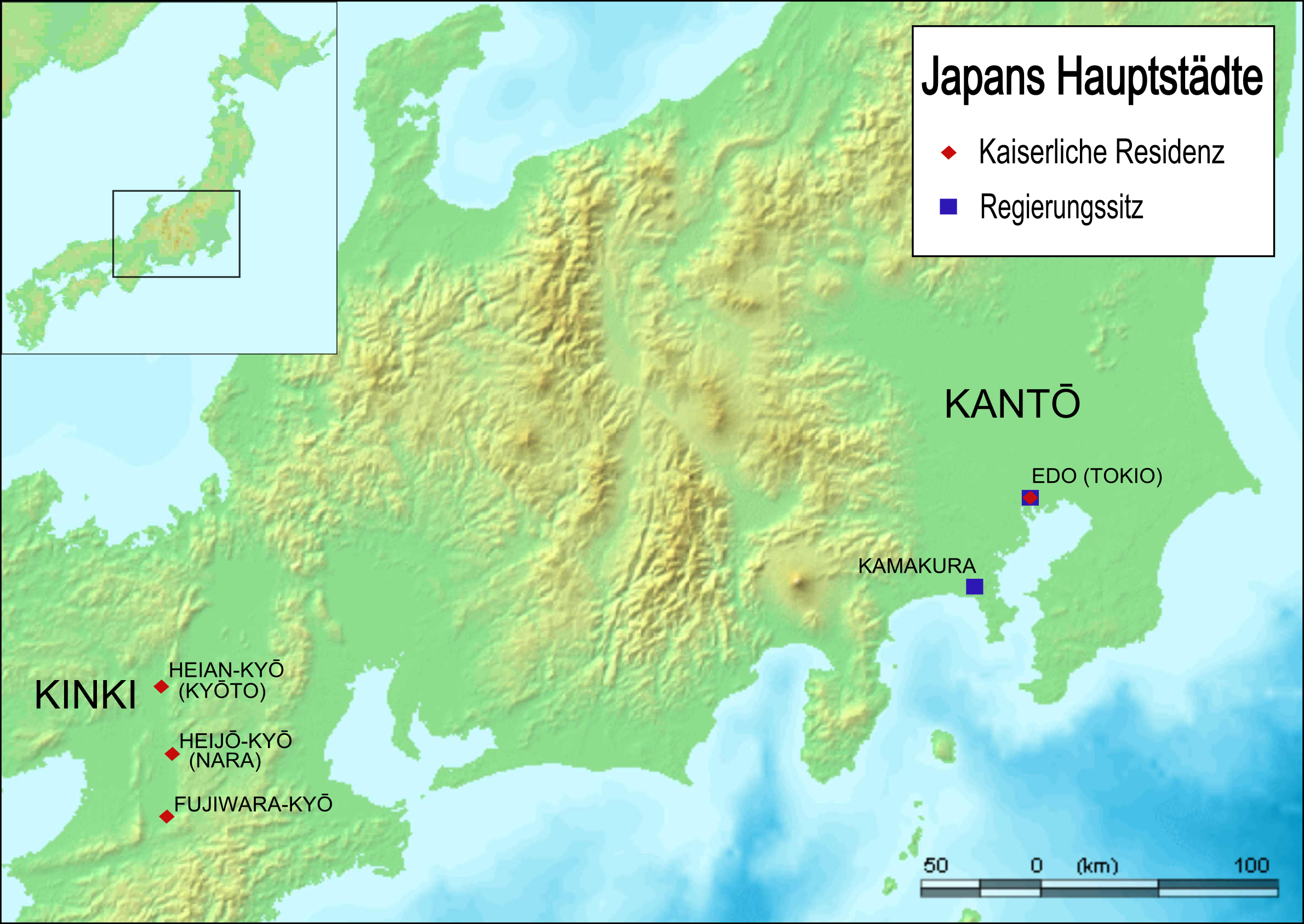 Map depicting the location of the most prominent capital cities in the history of Japan. Created from DEMIS Mapserver (public domain).